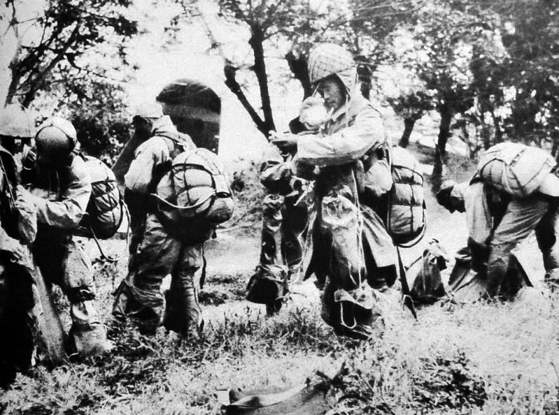 IJA Paratroopers of the 2nd Raiding Brigade preparing for Operation Te on Leyte, December 1944.